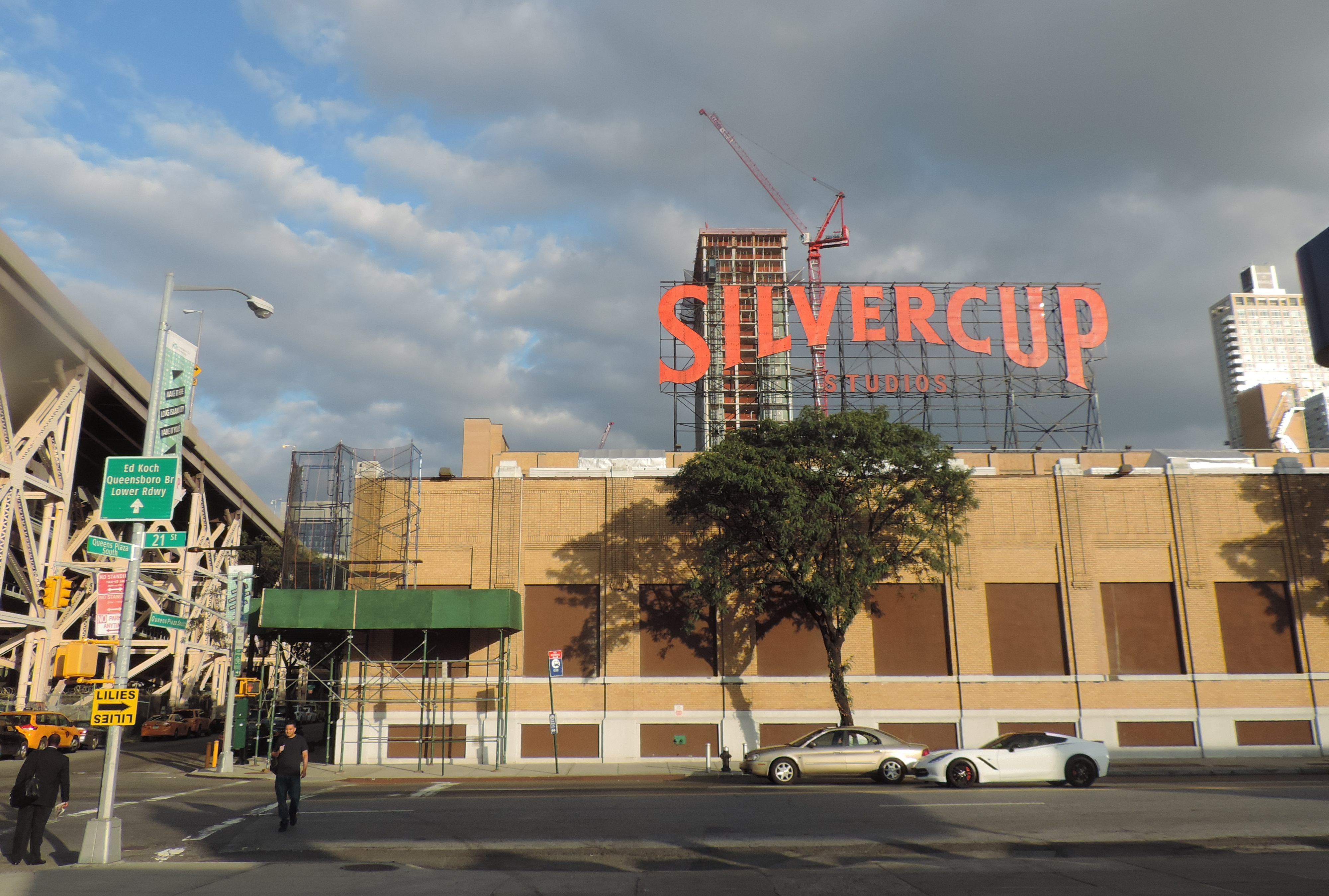 Looking east from gas station at Silvercup Studios on a partly cloudy late afternoon